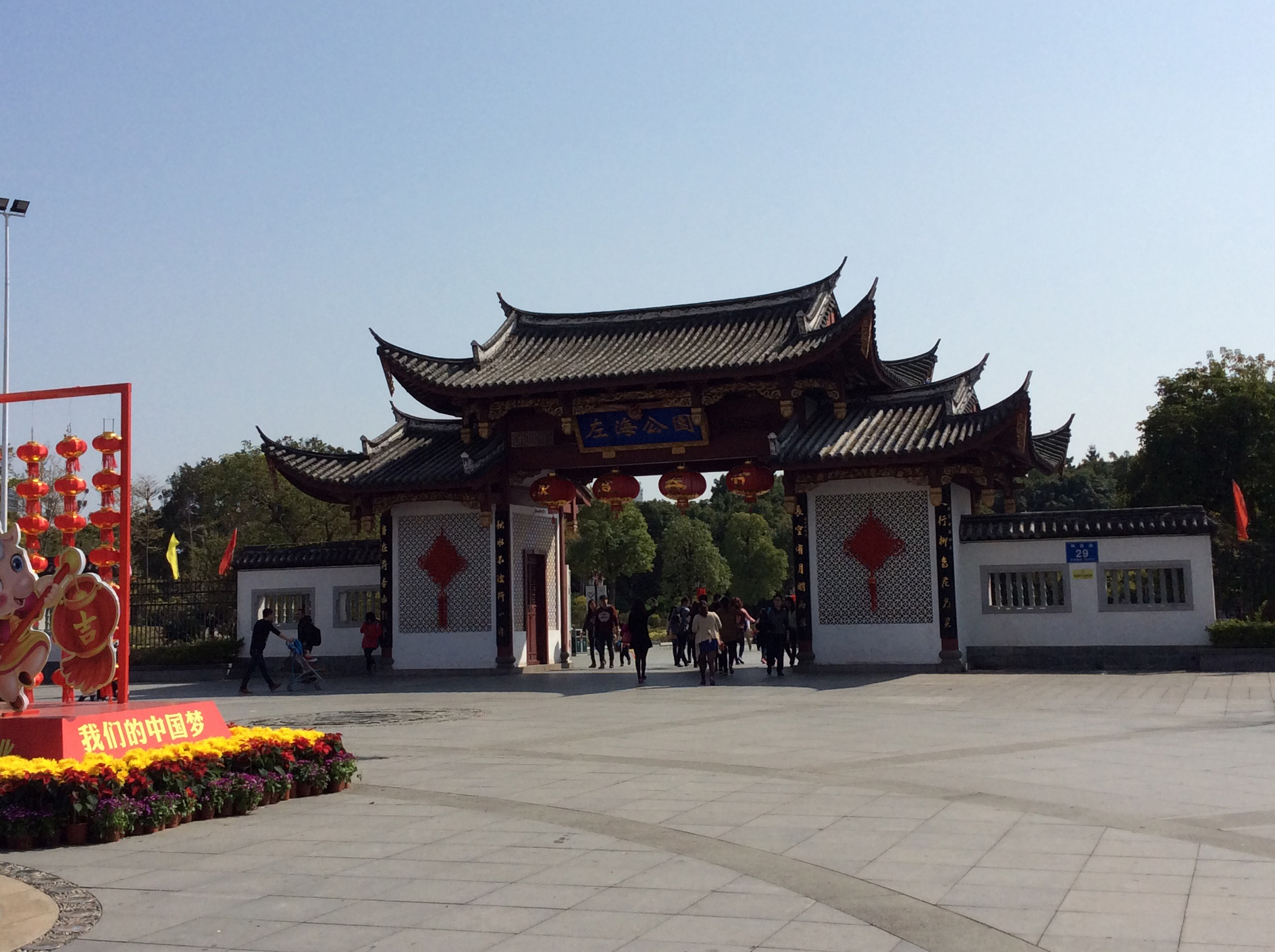 Fuzhou Zuohai Park North Gate